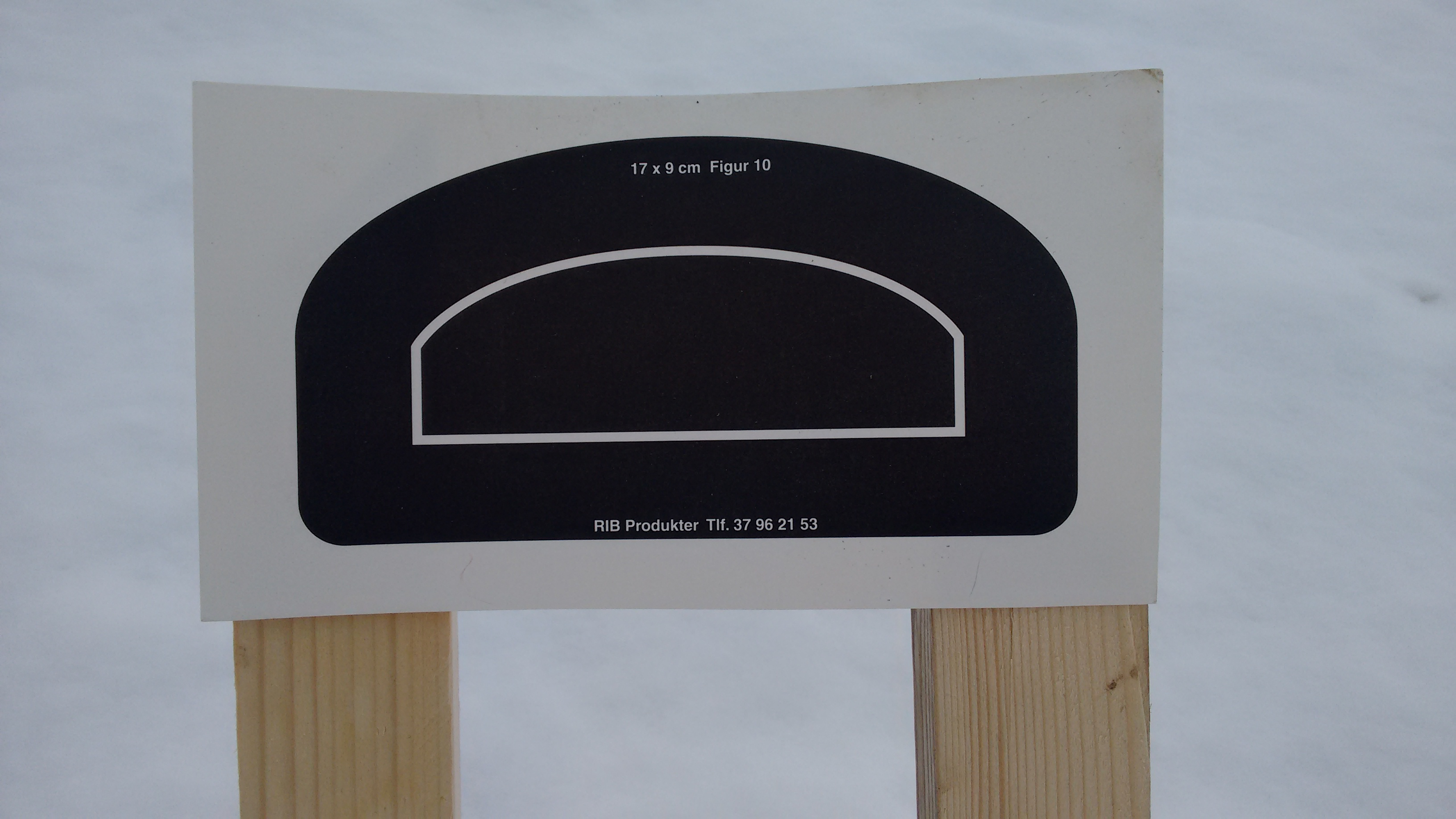 A paper shooting target used for Field Shooting.